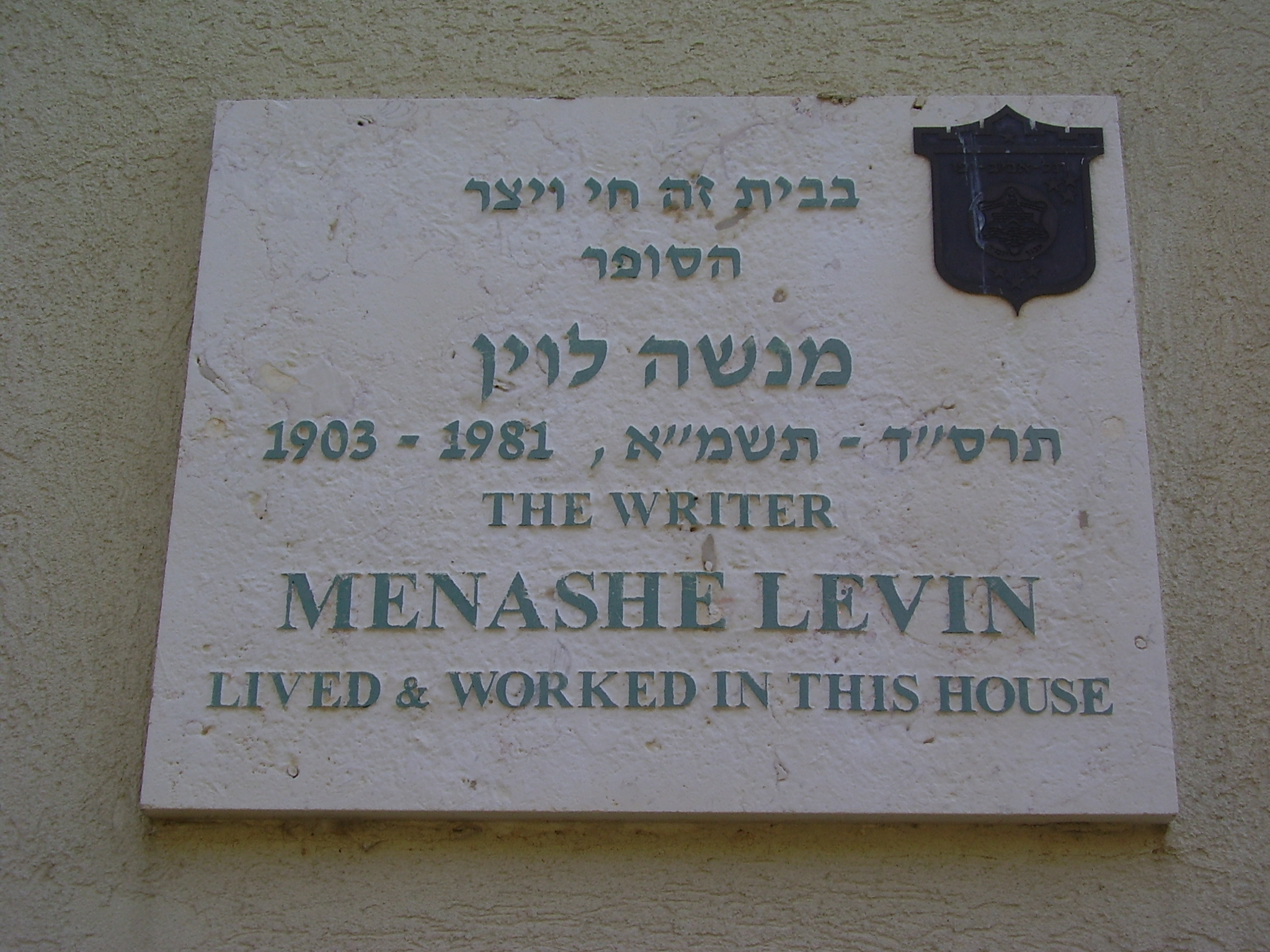 memorial plaque to the writer menashe levin in tel aviv לוחית זיכרון לסופר ולמתרגם מנשה לוין ברחוב ליפסקי 12 בתל אביב